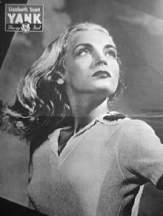 Pin-up photo of Lizabeth Scott for the Feb. 11, 1945 issue of Yank, the Army Weekly, a weekly U.S. Army magazine fully staffed by enlisted men.